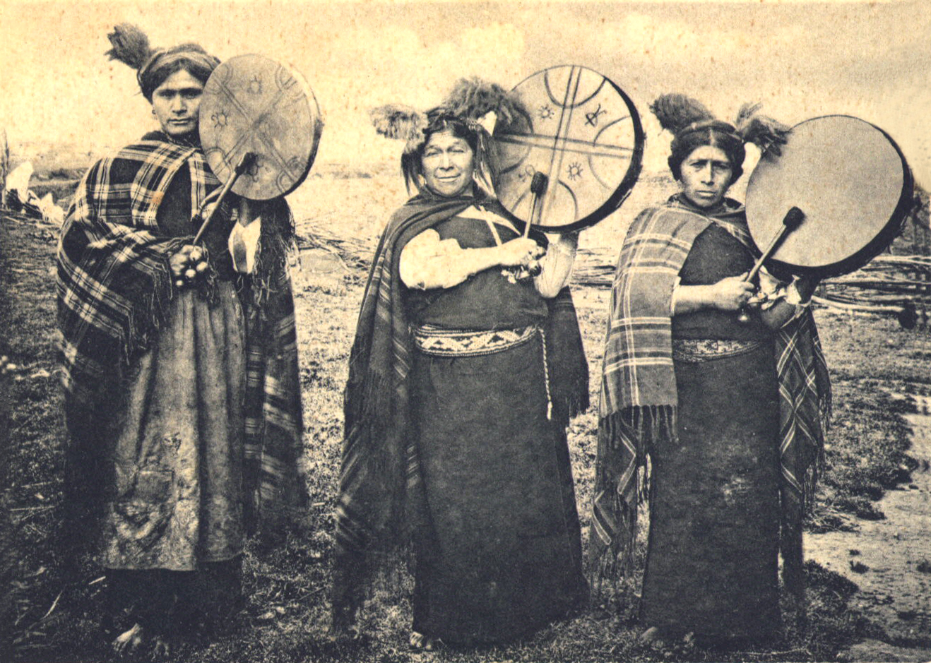 A Machi is a shaman or (usually) a good witch in the Mapuche culture of South America; and is also an important character and the Mapuche mythology.